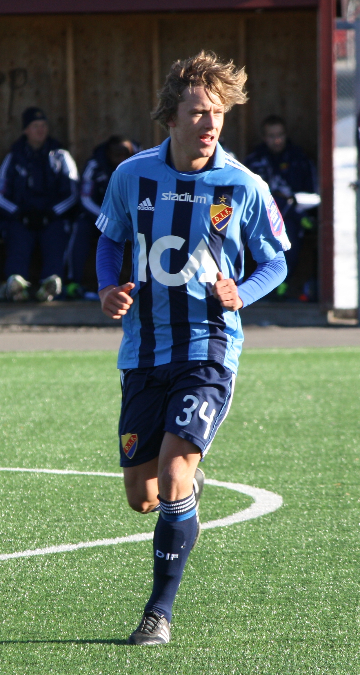 Swedish football player Joakim Alriksson